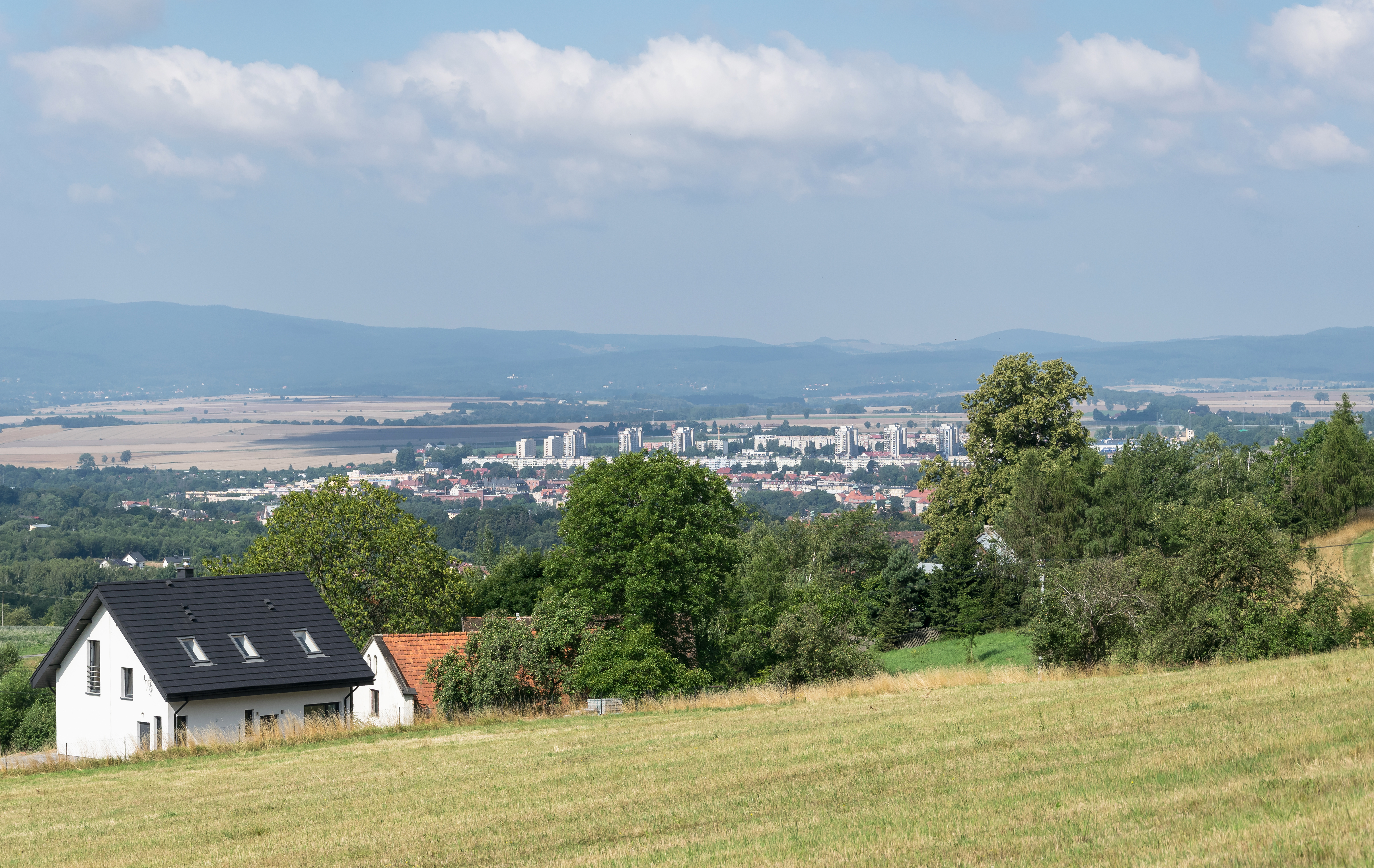 House No. 18 in Jaszkówka and Kłodzko